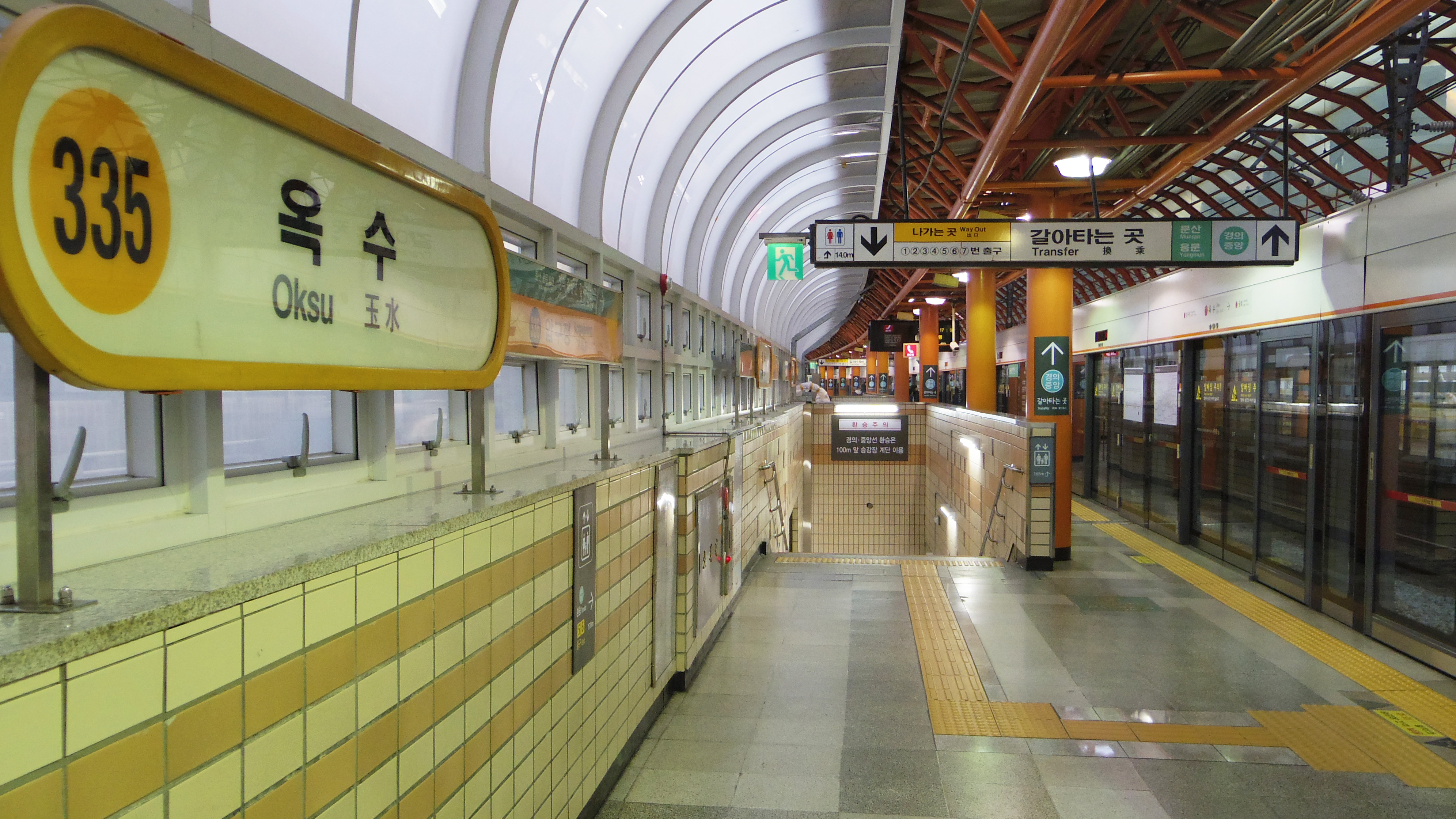 The platform at Oksu Station on Seoul Subway Line 3 in Seongdong-gu, Seoul, Republic of Korea(South Korea)